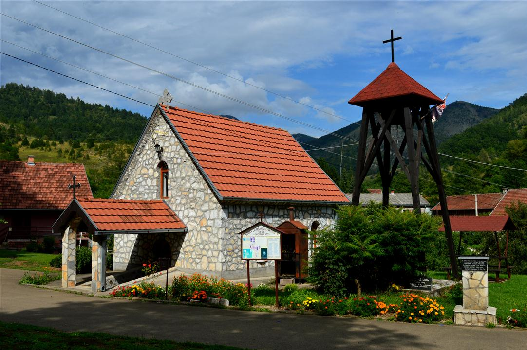 Raska Municipality - Kovači